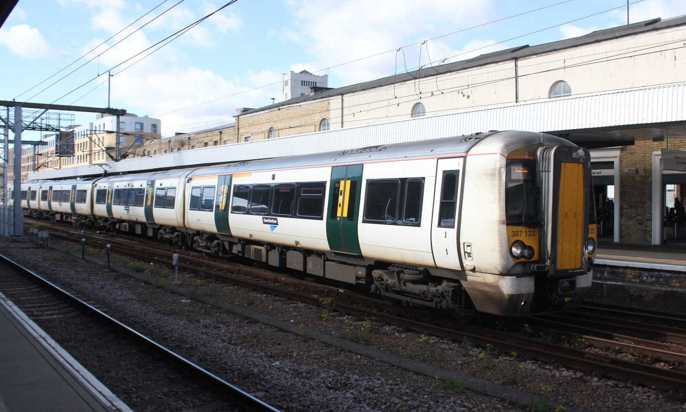 'Electrostar' 387123 moves onto the through line at Cambridge. It had arrived as part of a London King's Cross to Kings Lynn service but had been detached here (Ely doesn't need such long trains) and is heading out to the depot.